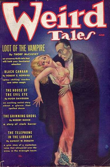 Cover of the pulp magazine Weird Tales (June 1936, vol. 27, no. 6) featuring Loot of the Vampire by Thorp McClusky. Cover art by Margaret Brundage.